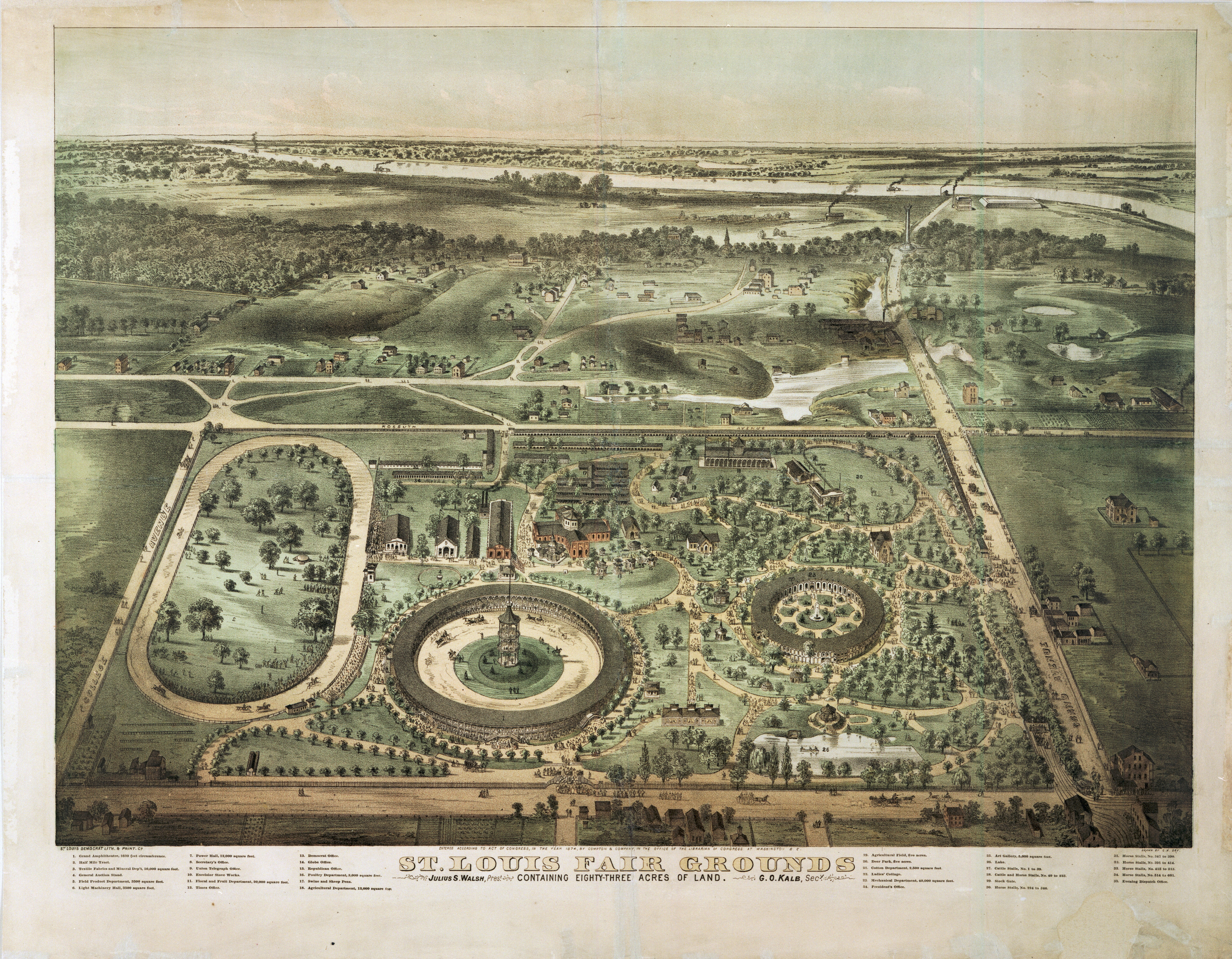 Title: St. Louis Fair Grounds. Containing Eighty-Three Acres of Land.